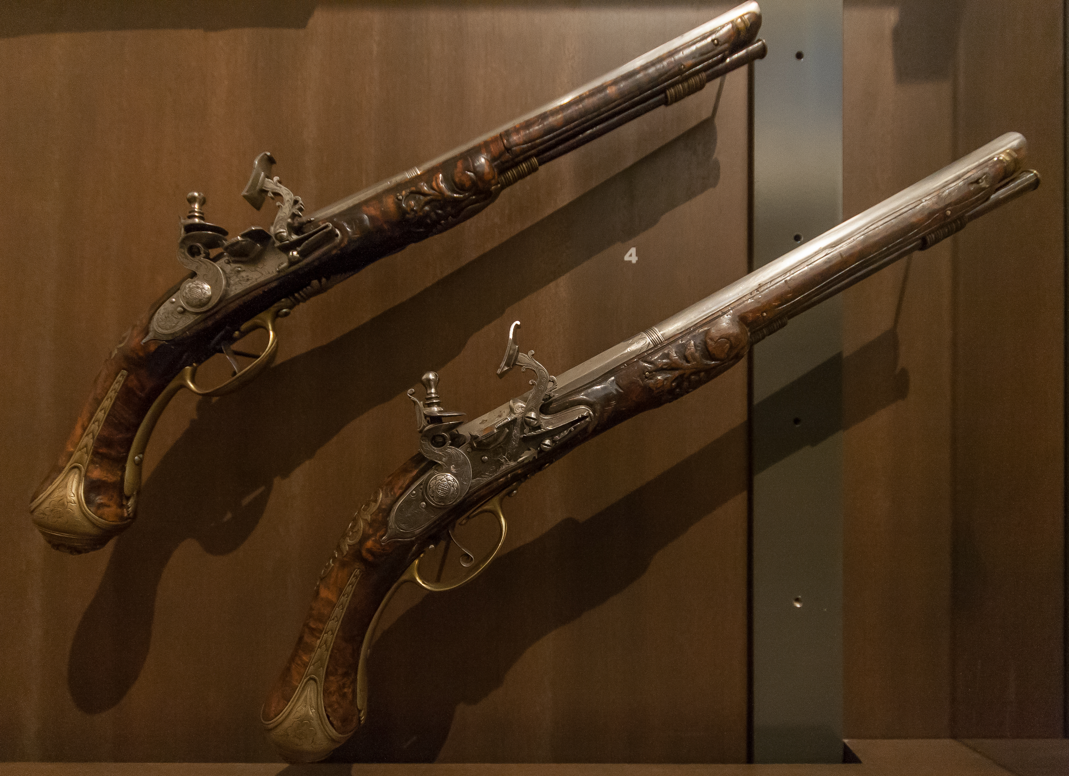 Pair of pistols Chenapan. Manufactured by Giyti, Italy, 1690-1700. Carved walnut butt. Weapons Department, Museum of Art and Industry in Saint-Étienne, France.